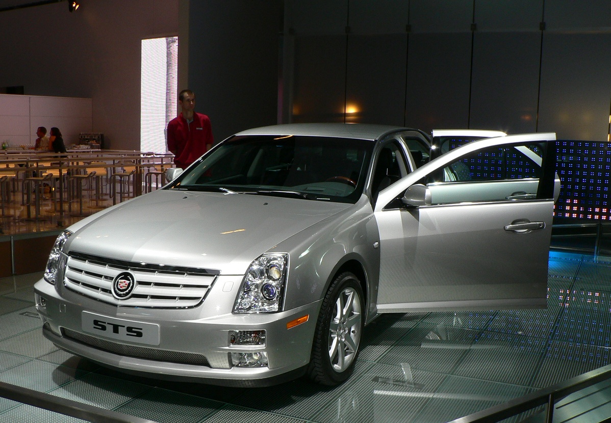 Cadillac STS at the 2006 Paris Motor Show